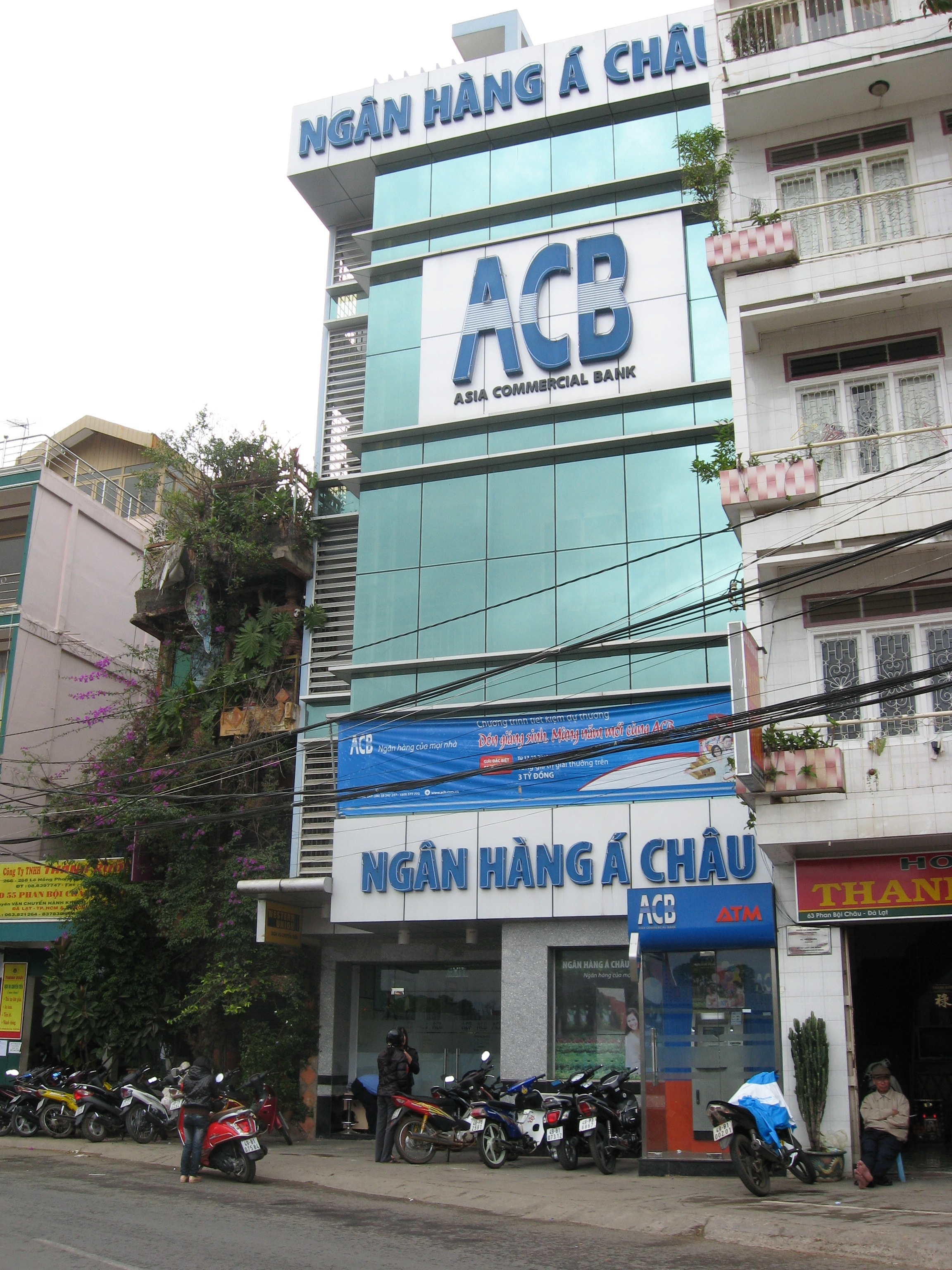 ACB 61 Phan Boi Chau, Da Lat